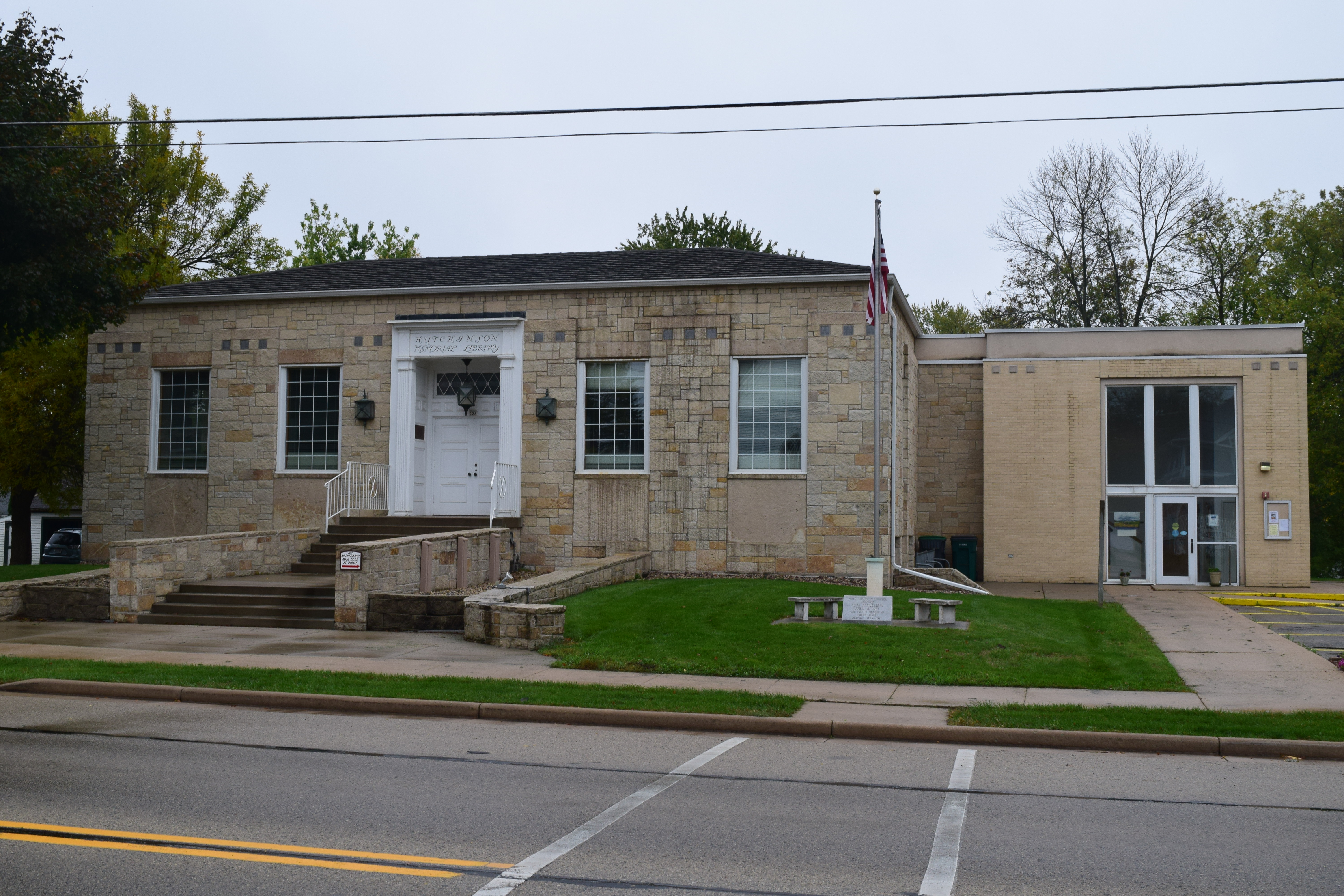 The Hutchinson Memorial Library, located at 228 N. High St. in Randolph, Wisconsin. The library is listed on the National Register of Historic Places.